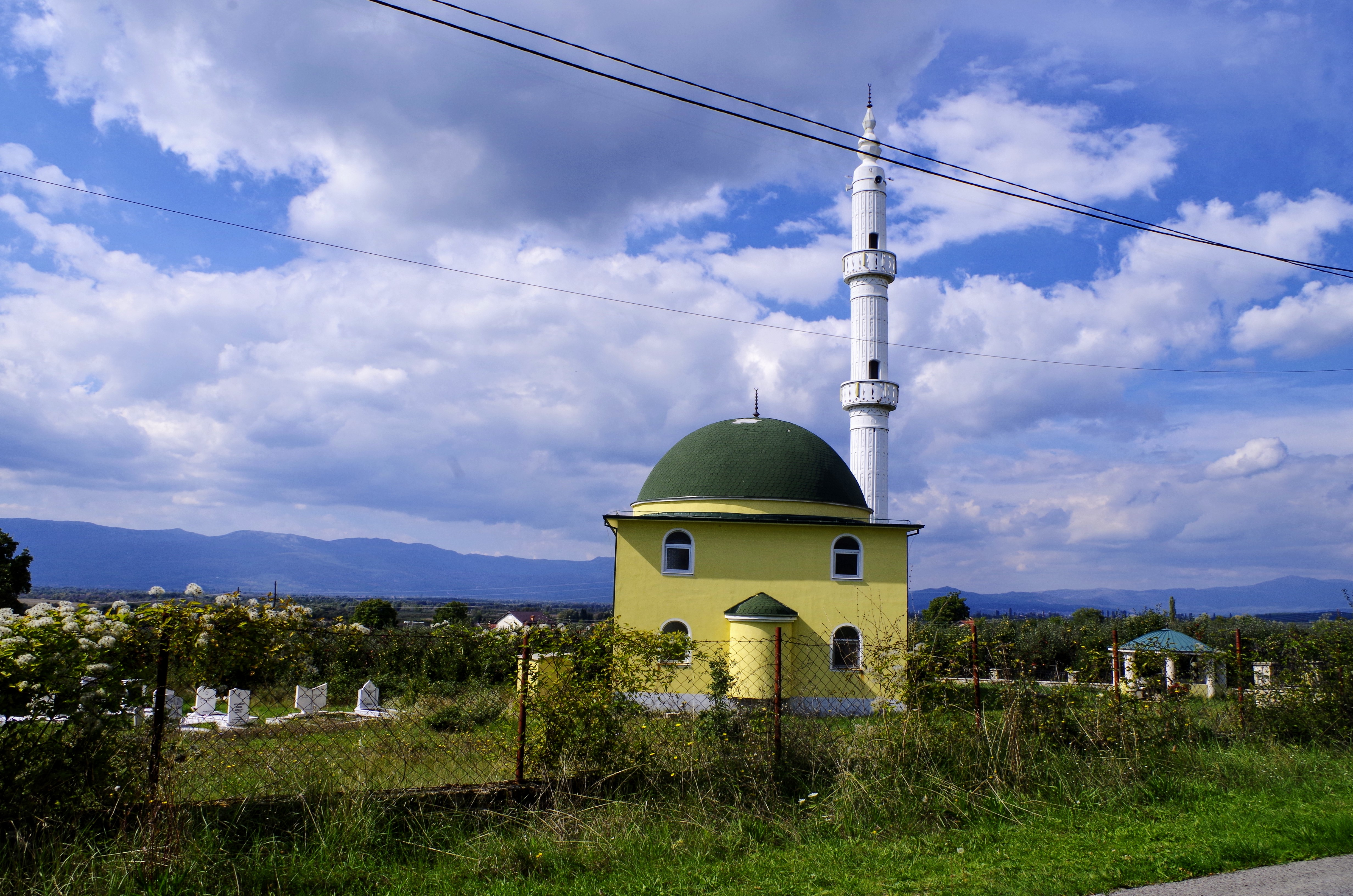 View of the mosque in the village Asamati